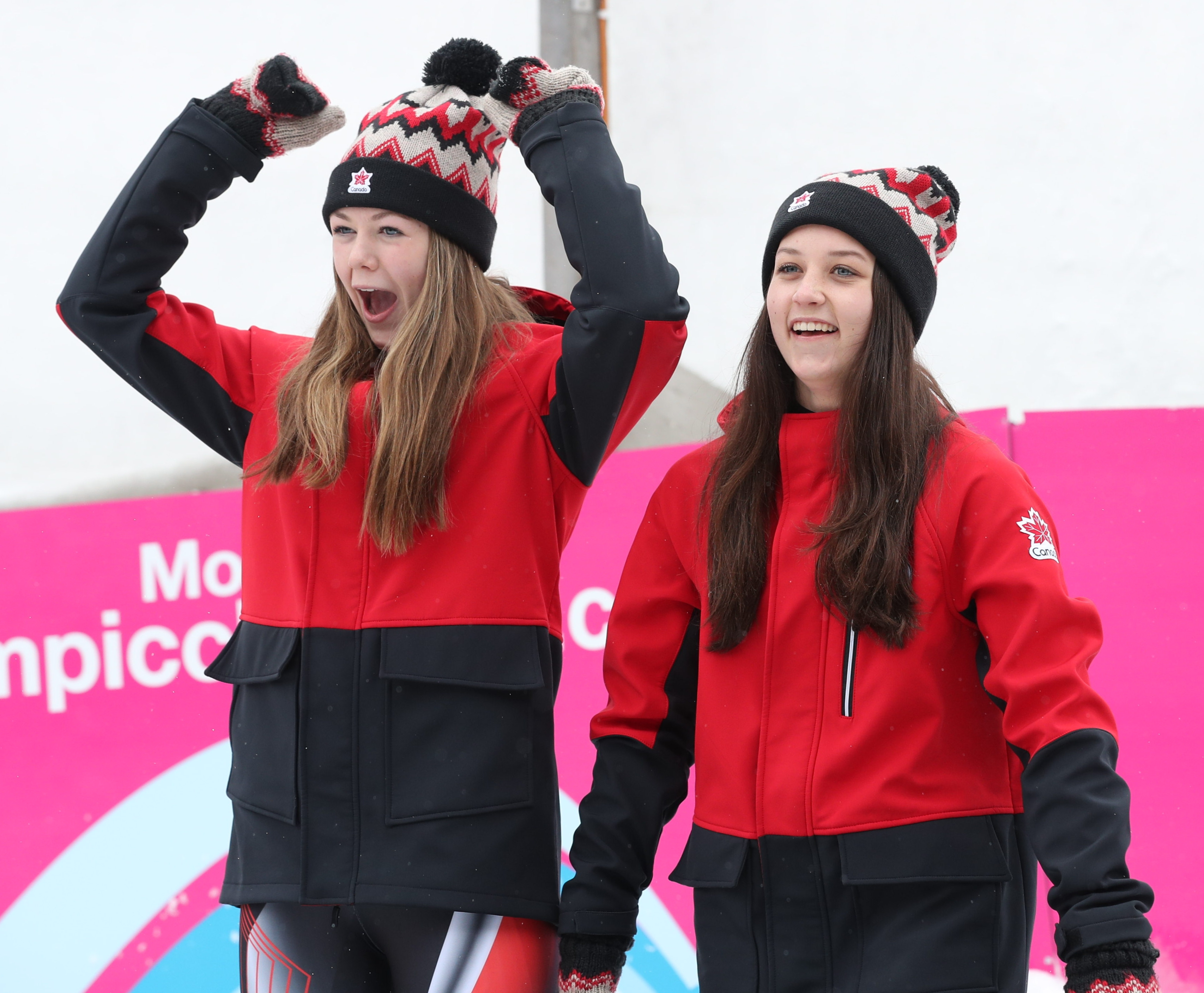 Mascot Ceremony Luge Women's Double at the 2020 Winter Youth Olympics in Lausanne